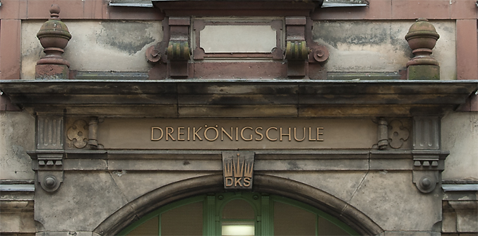 detail: three crowns, entrance at front of school building named Gymnasium Dreikoenigschule Dresden